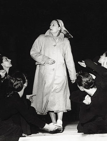 The Russian dancer and choreographer Jia Ruskaja dancing during the rehearsal of 'Medea'. Ostia, 1950s